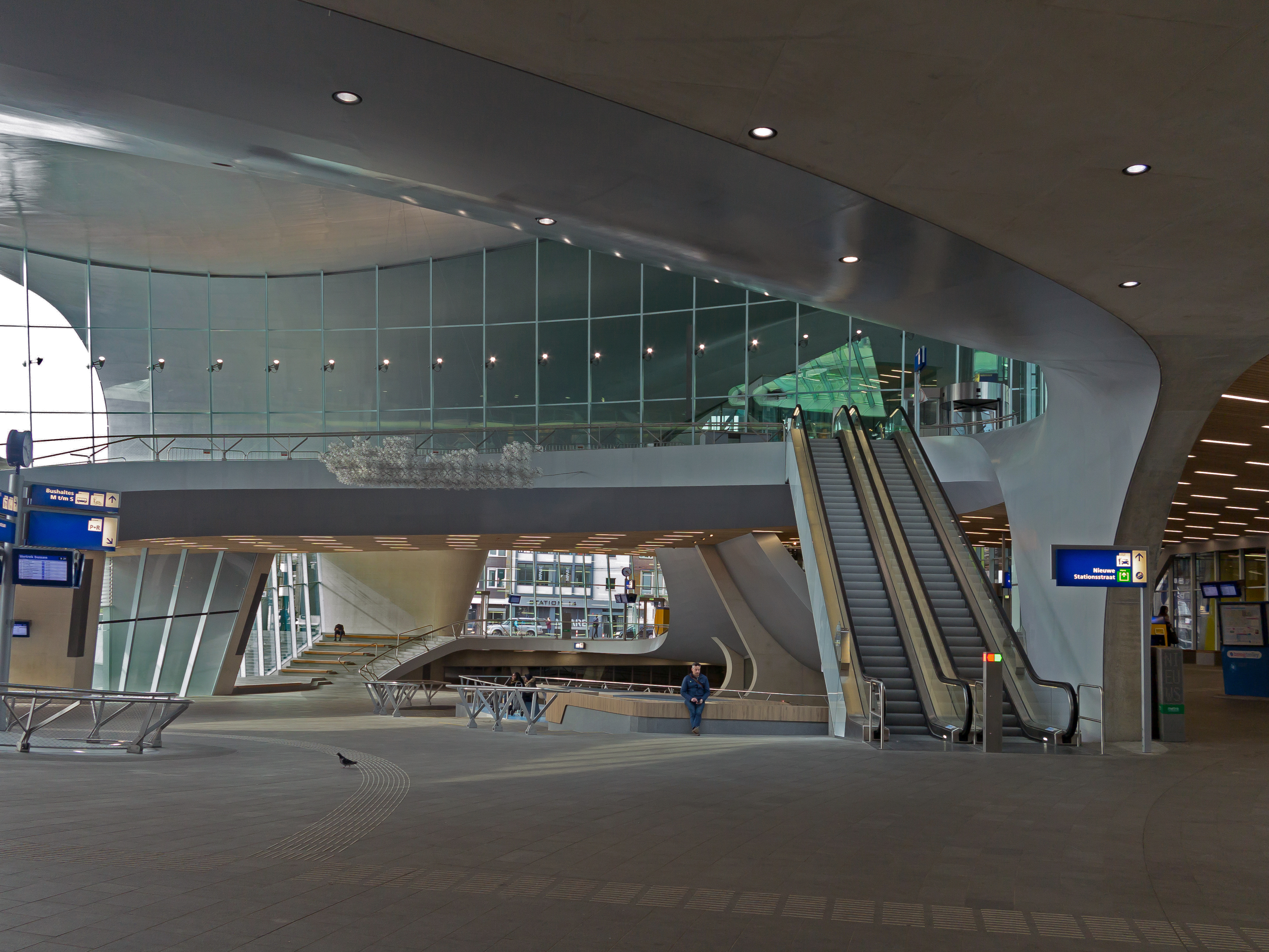 Arnhem, stairs near the entrry of the railway station